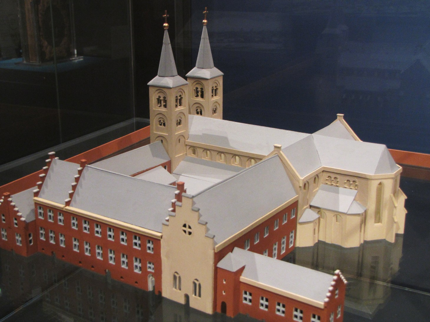 Maquette van de verdwenen Paulusabdij te Utrecht